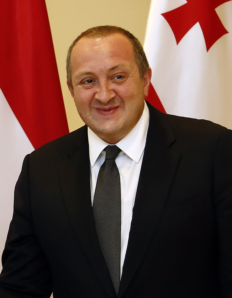 Arbeitsbesuch Georgien. Bundesminister Sebastian Kurz trifft den georgischen Präsidenten Giorgi Margvelashvili. 10.09.2014. Foto: Dragan Tatic